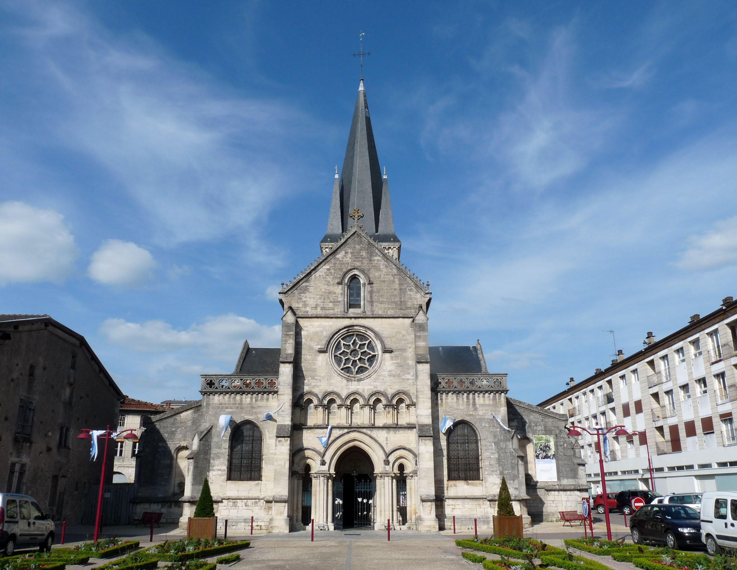 Church Notre-Dame-des-Vertus in Ligny-en-Barrois (Meuse)